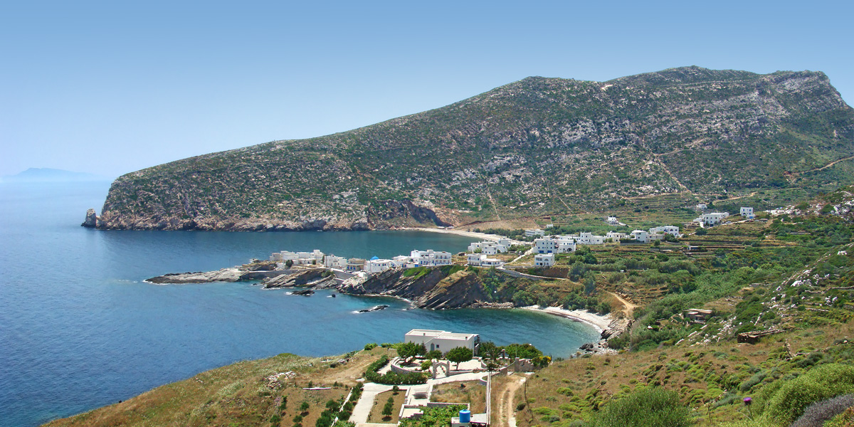 Apollonas, Naxos, Greece.